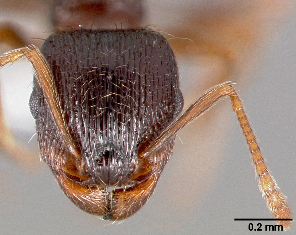 Head view of ant Tetramorium caespitum specimen casent0005827.